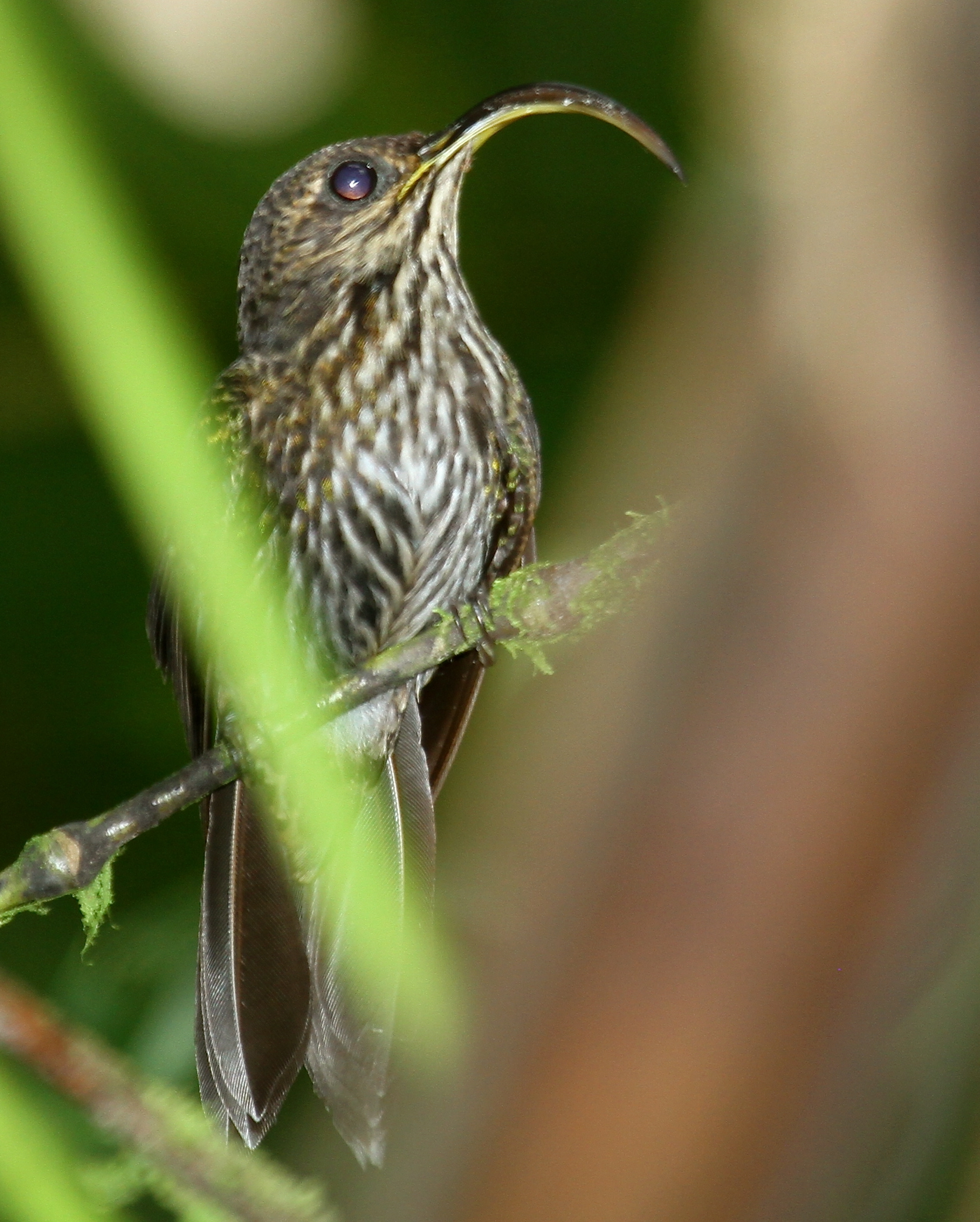 Umbrella Bird Lodge - Ecuador